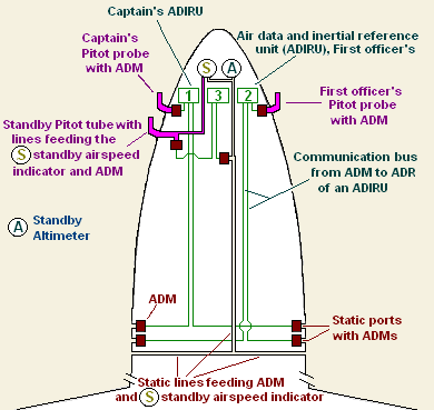 Airspeed detectors and indicator diagram for fly-by-wire aircraft, modified from Airbus 330 - Systems - Navigation- Does not show links to other systems (DMCs, Altimeter, Panel switches, etc). ADM - Air data module.